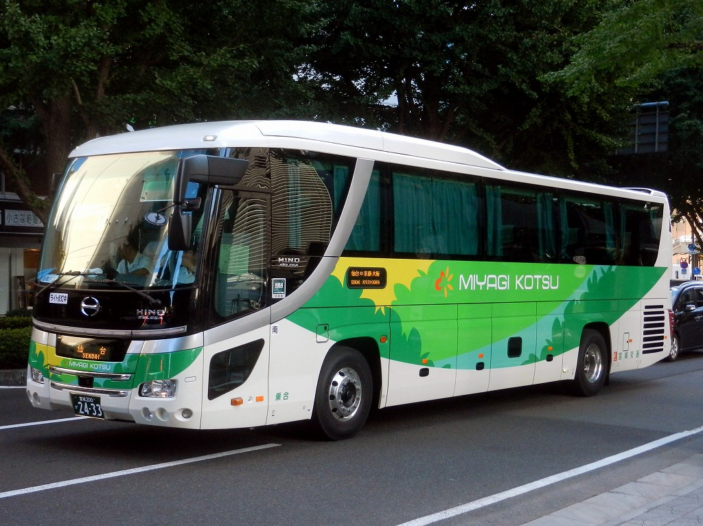 Miyagi Kotsu Hino S'elega HD (QRG-RU1ESBA)highwaybus "Forest"(Sendai-Kyoto,Osaka)